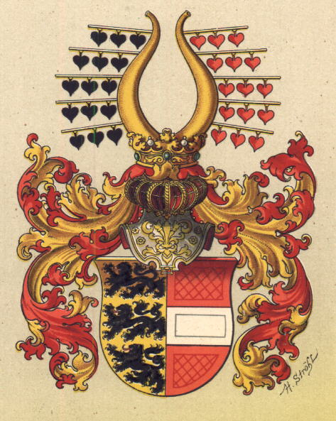 Historical great coat of arms of Carinthia